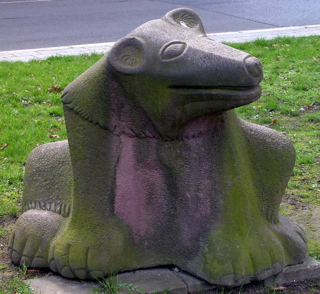 Brunswick, Germany: “Asiatic Black Bear” by Anatol Buchholtz.